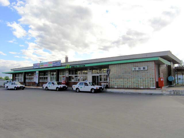 Shibetsu Station